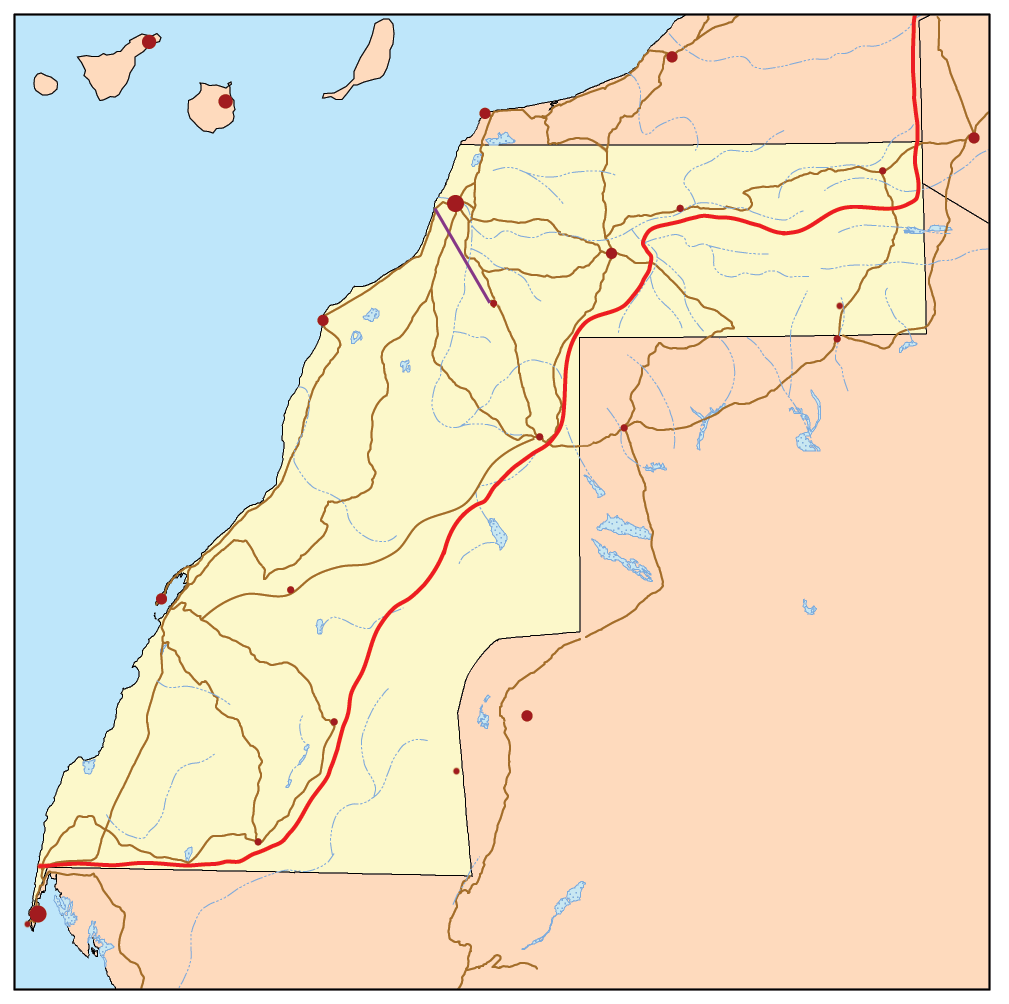 This is a general map of Western Sahara.